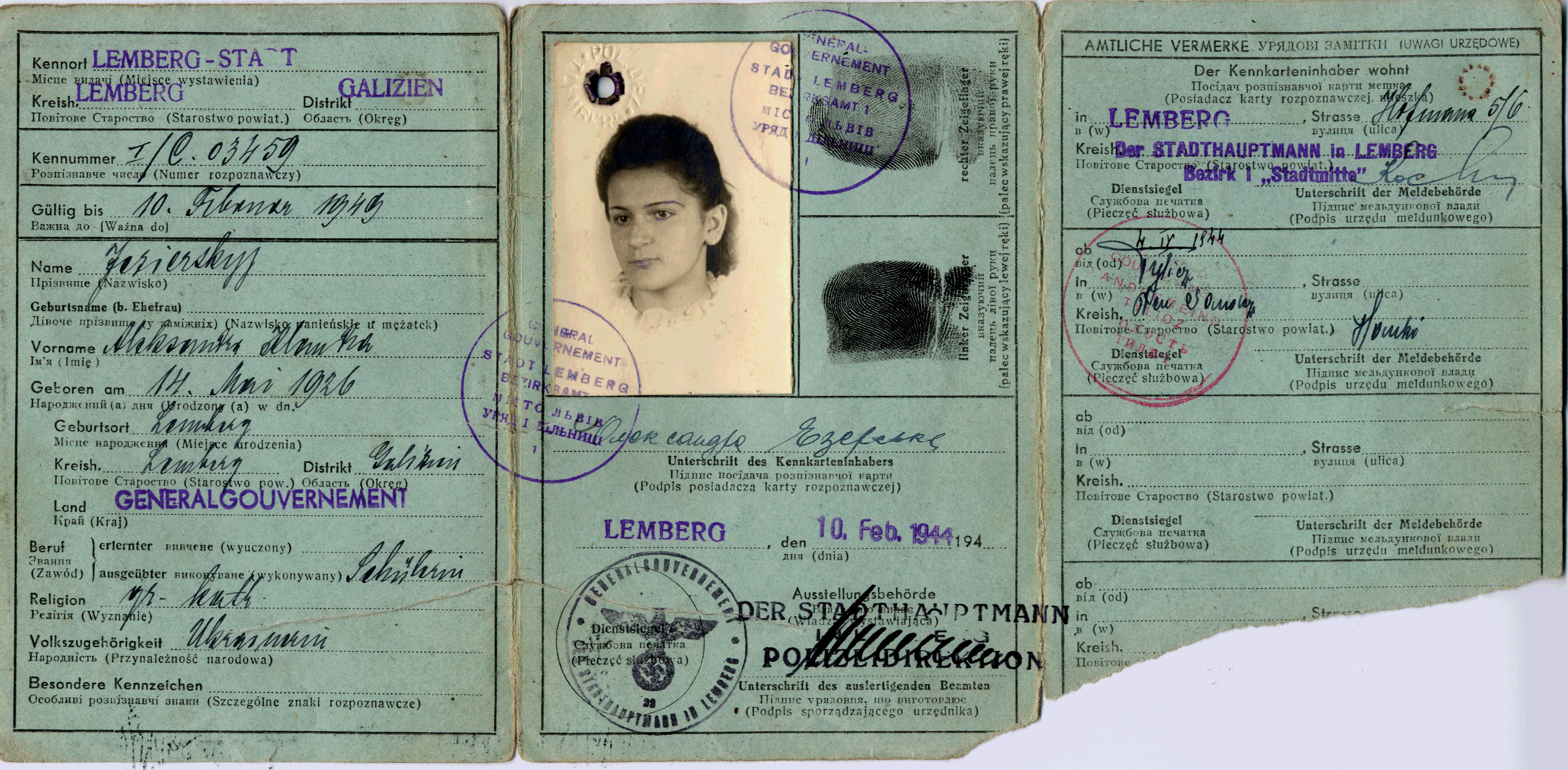 Kennkarte of Alexandra Klaudia Melnyk (Yezerska) from 1944, published in Lemberg (Lviv). Document is using three languages: German, Ukrainian and Polish